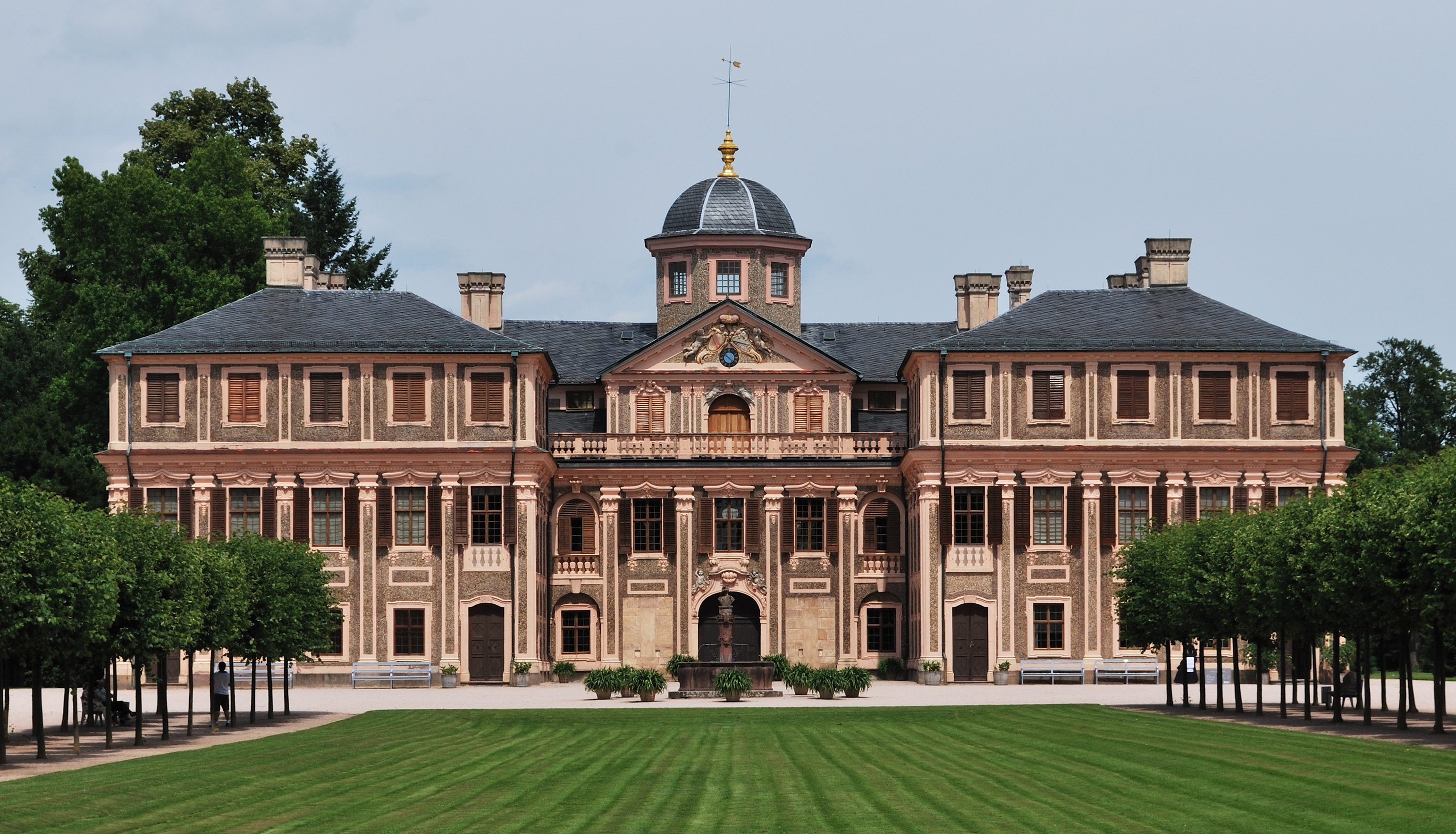 Schloss Favorite in Rastatt in the federal state Baden-Württemberg in Southern Germany.